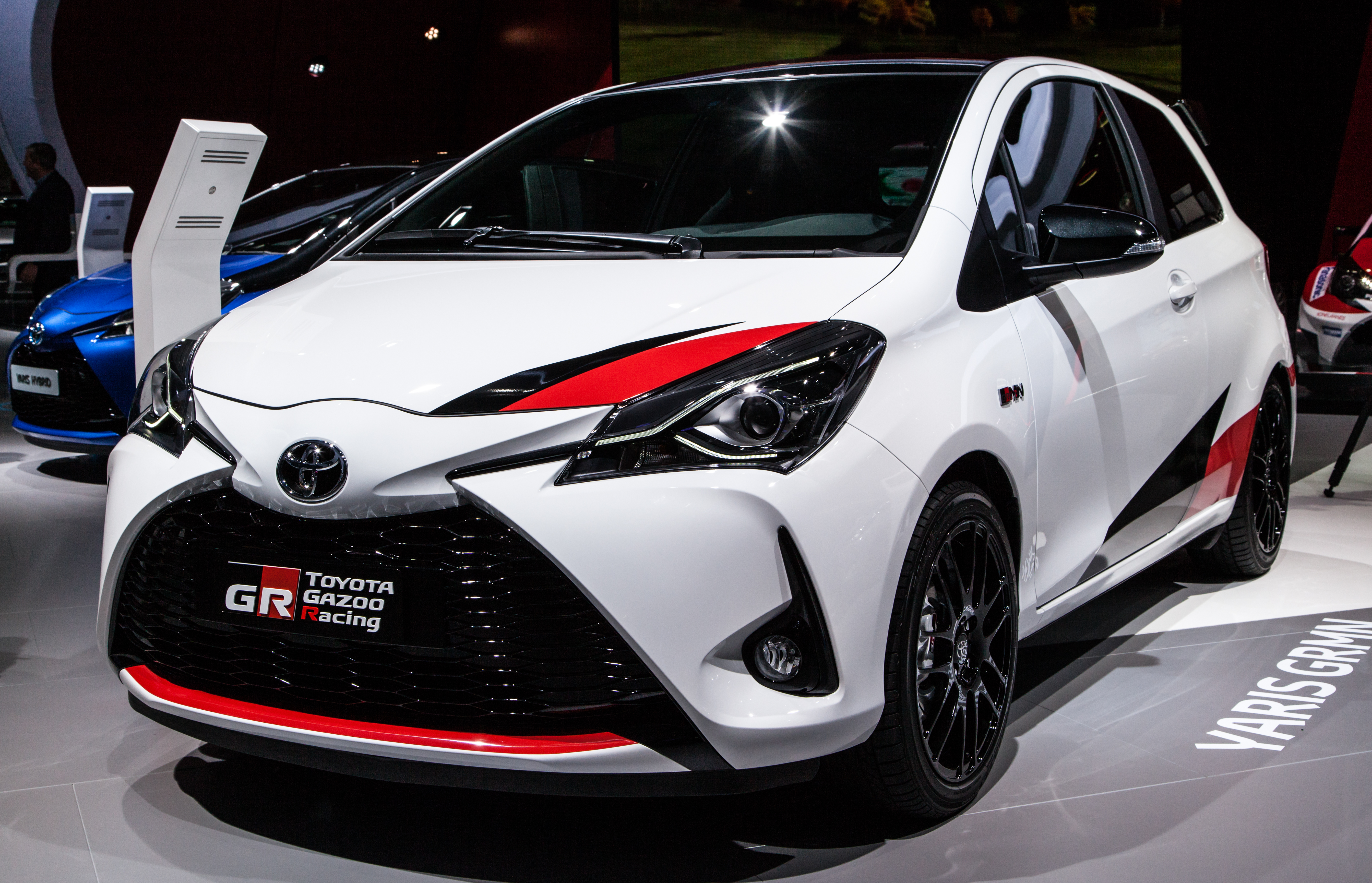 Toyota Yaris GRMN at IAA 2017